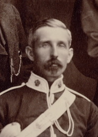 Original caption: "George Taylor Denison II, 1816-1873, Family Portraits Picture, 1877, English Notes Inscribed in pencil, mount vso l.l.: 795; mount vso c.: 2 No. 71 E paid [?] Shows, l. to r.: Frederick Charles Denison, 1846-1896; Henry Tyrwhitt Denison, 1849-1929; George Taylor Denison III, 1839-1925; Septimus Julius Augustus Denison, 1859-1937; John Denison, 1853-1939; Egerton Edmund Augustus Denison, 1860-1886; Clarence Alfred Kinsey Denison, 1851-1932. Rev. NOV 20 1990" This image is available from the Toronto Public Library under the reference number 974-30-5 CabThis tag does not indicate the copyright status of the attached work. A normal copyright tag is still required. See Commons:Licensing. English | français | +/−